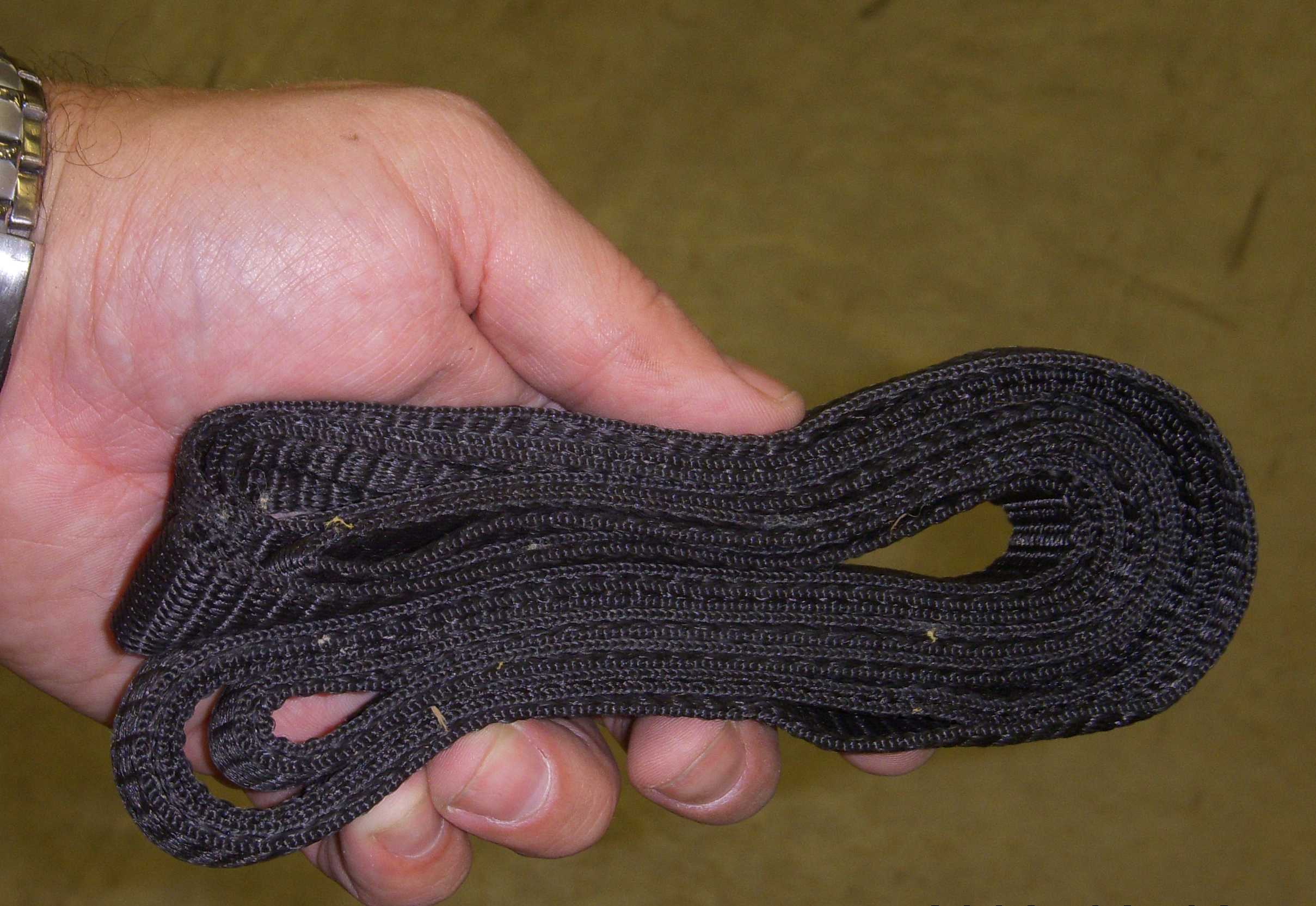 Handheld view of nylon hose strap/rope-hose tool, folded for storage.